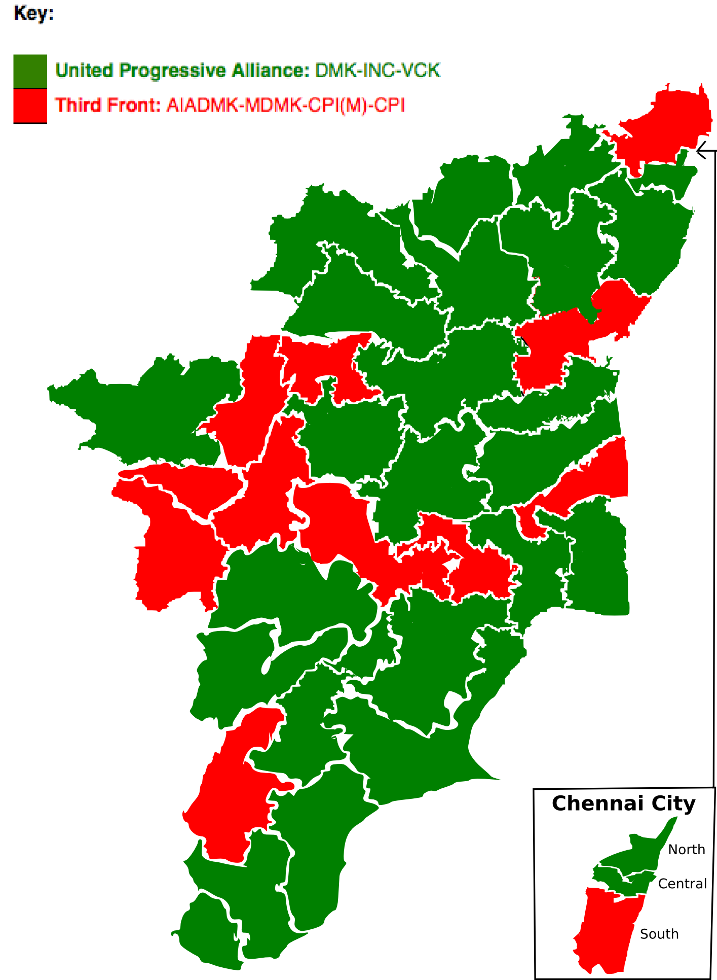 2009 Lok Sabha Election map for Tamil Nadu. Map is based on ECI drawn map from Results are on published data from ECI website at